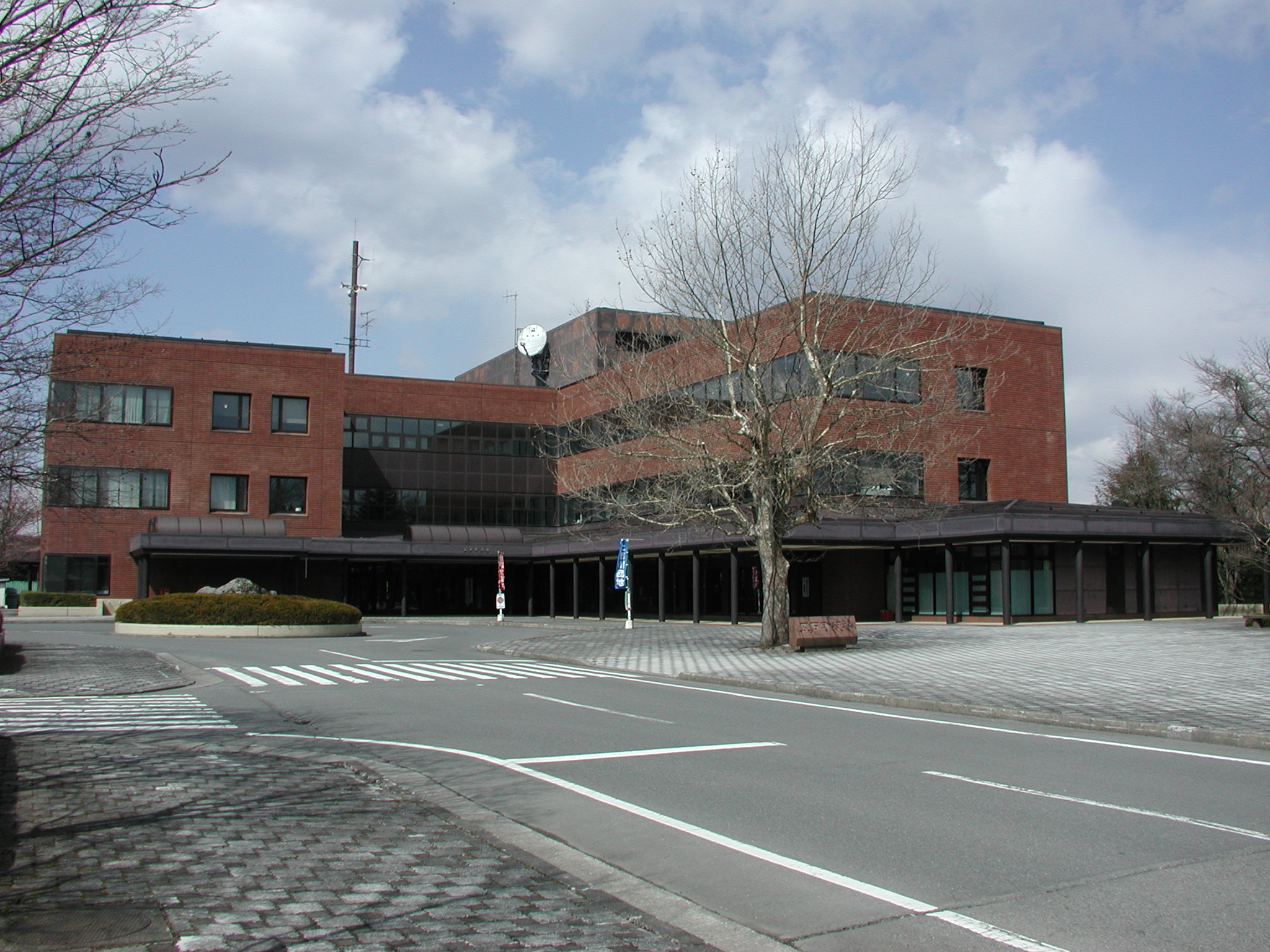 Gonohe Town Office